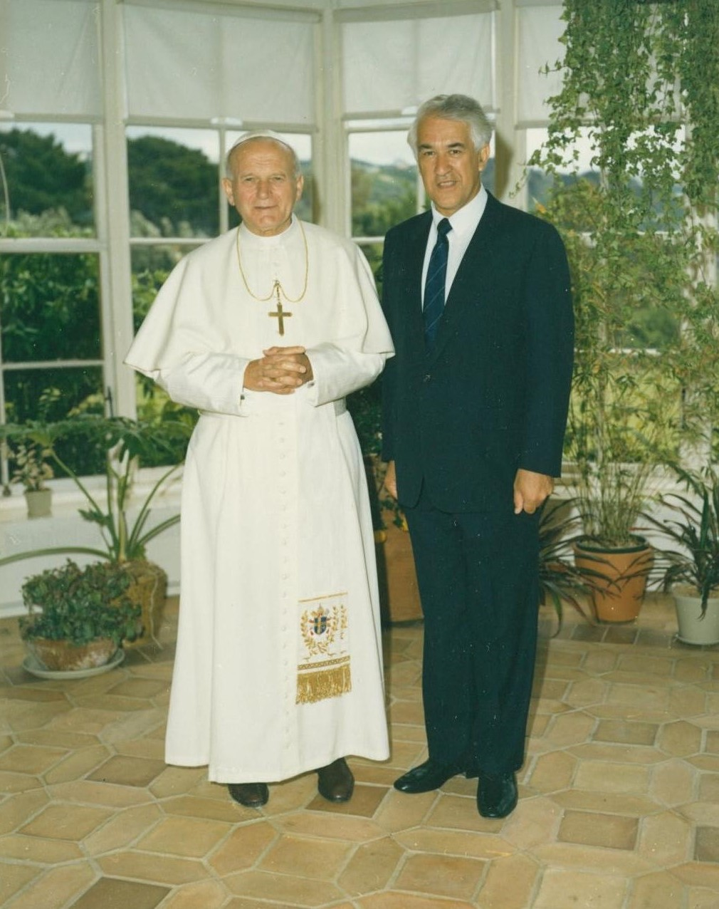 Sir Paul Reeves welcomed His Holiness Pope John Paul II to New Zealand in November 1986. They are pictured in the Conservatory at Government House in Wellington.